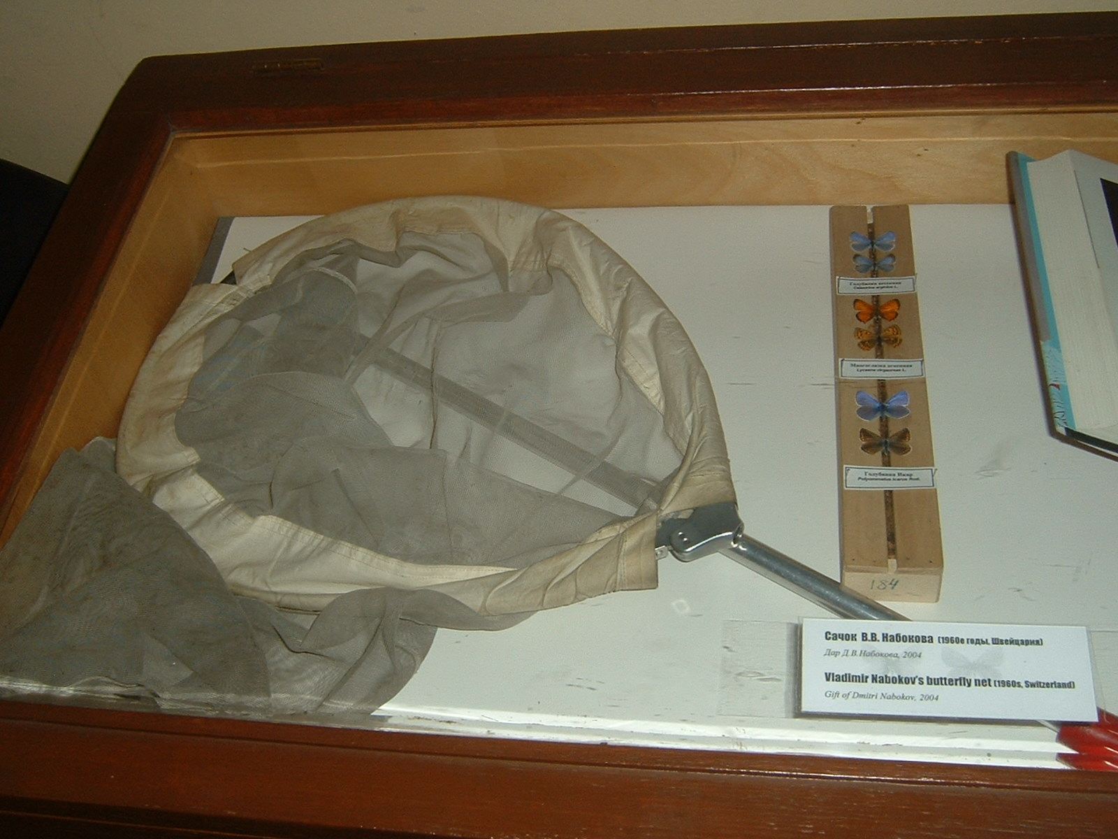 Butterfly net beloning to Vladimir Nabokov, Colection of Nabokov House